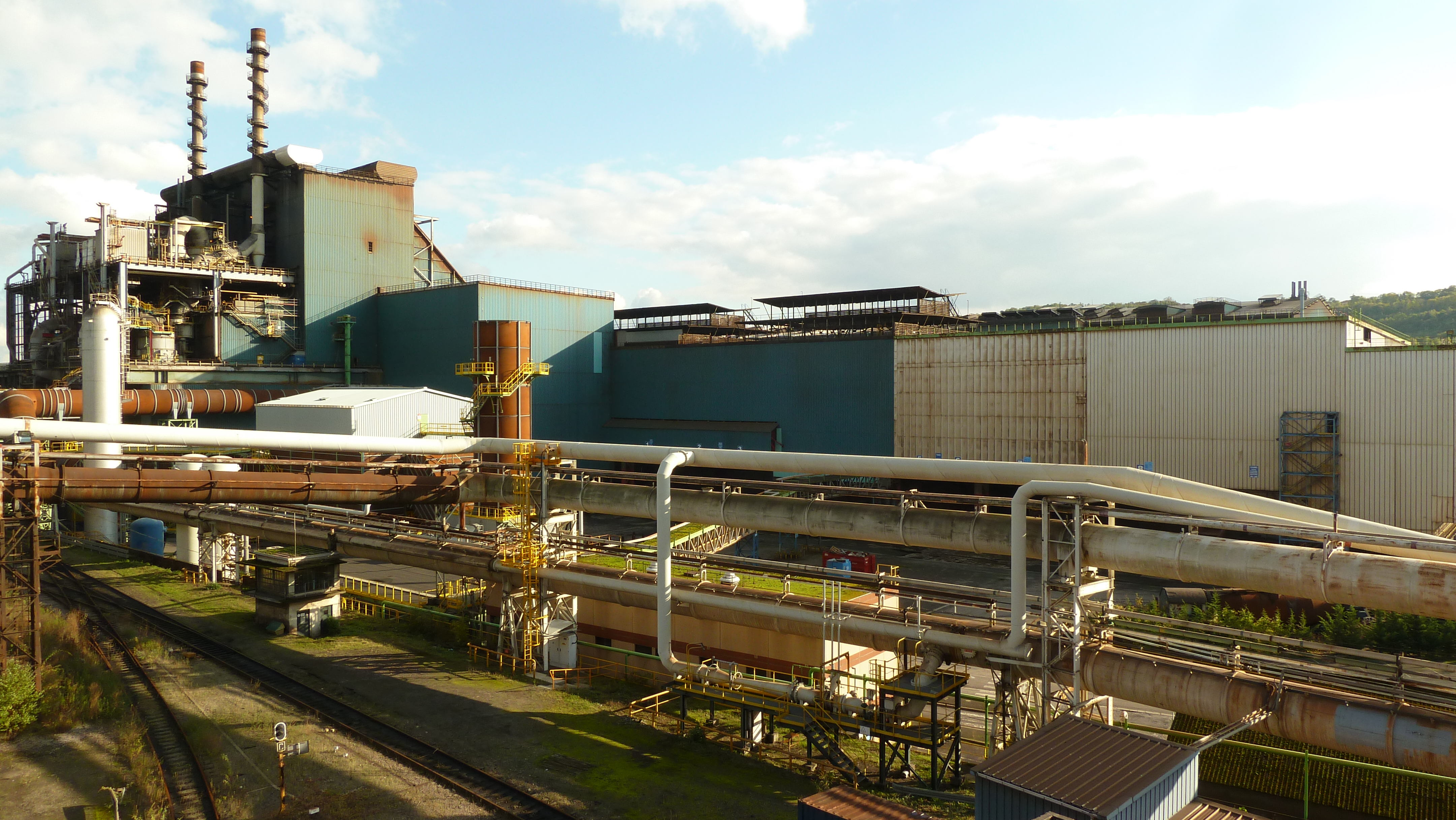 View of the ArcelorMittal steel mill at Serémange (part of Florange Ironworks), from the hot stoves of the P6 blast furnace. When the picture was taken, the mill has just been shut down.